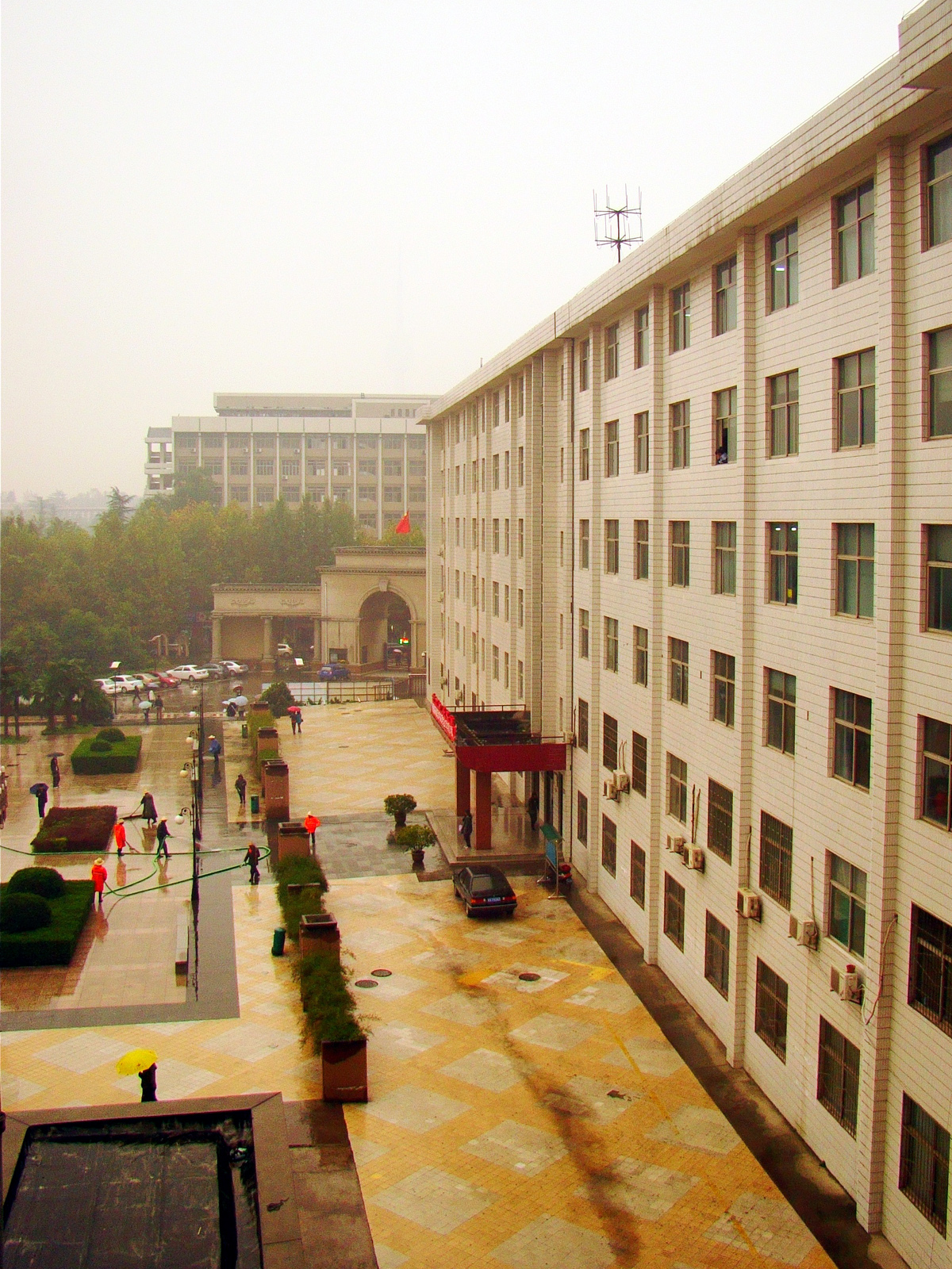 Main building of the Xi'an International Studies University.